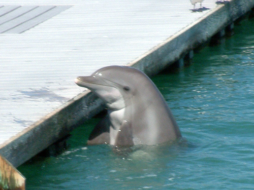 Bottlenose Dolphin